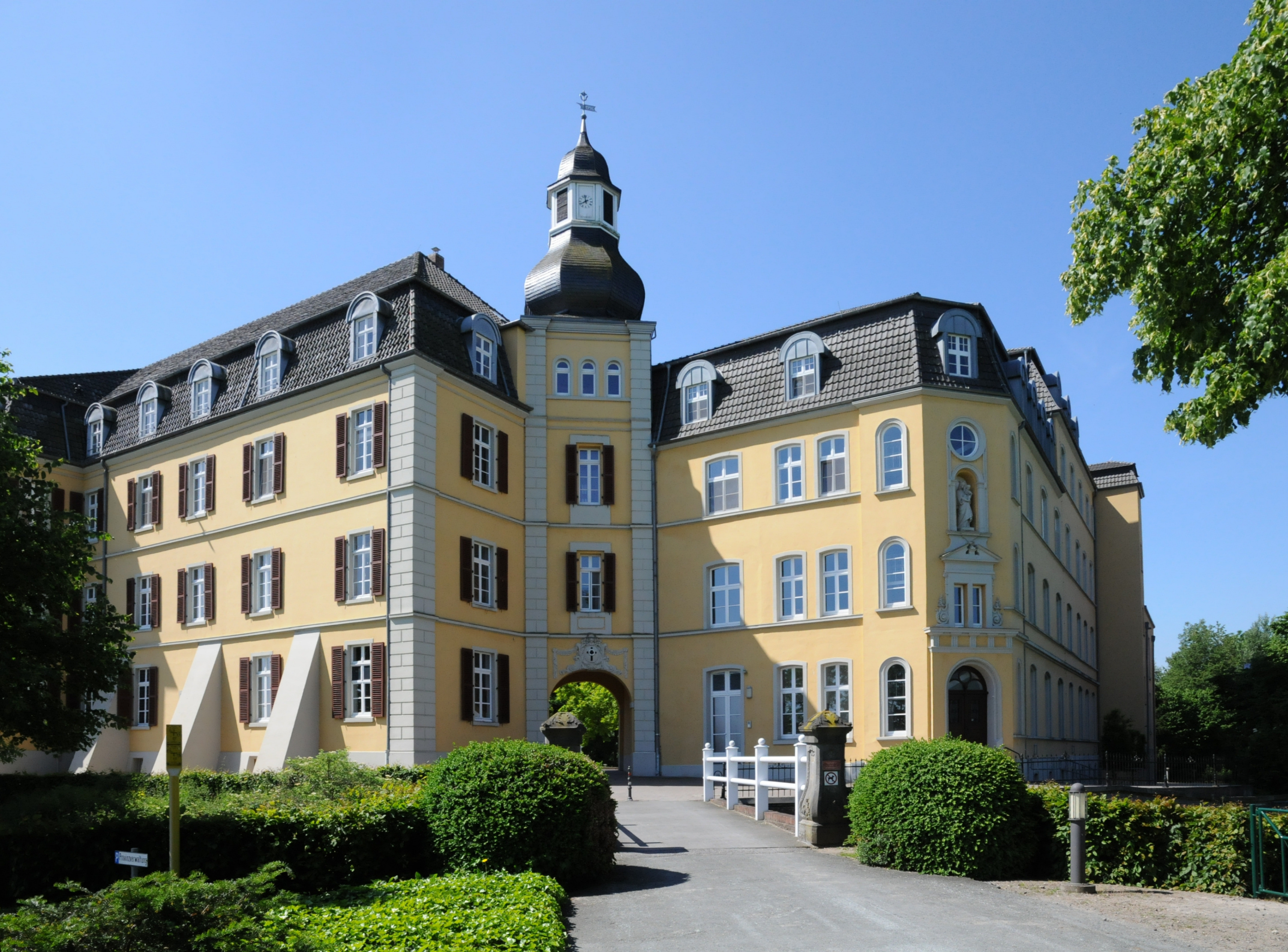 Haus Aspel in Rees, entrance tower